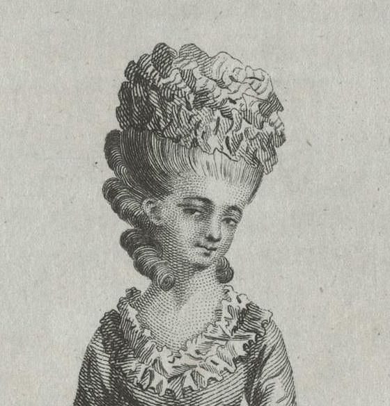 Engraving of actress Mary Bulkley (1747/8-1792) as Miss Hardcastle in She Stoops to Conquer, 1780. She was born Mary Wilford; her two married names were Bulkley and Barrisford. She was known professionally as Mrs Bulkley. Her biography is here.